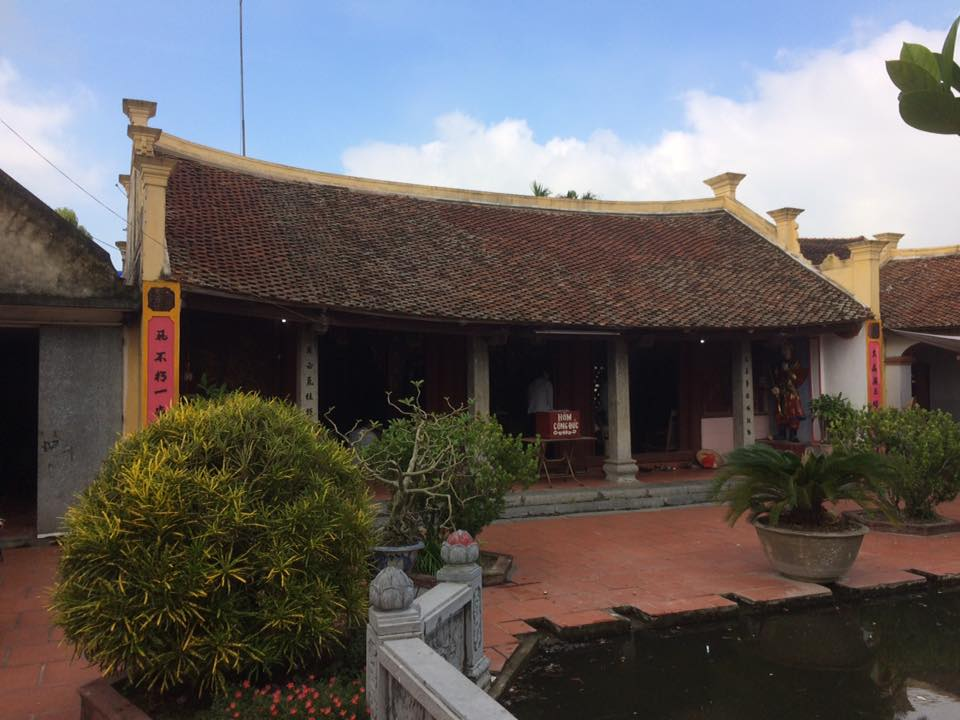 Mother Goddess temple in Dong Son village, Thai Binh province - worship Đinh Tỉnh Nương, wife of Đinh Tiên Hoàng.